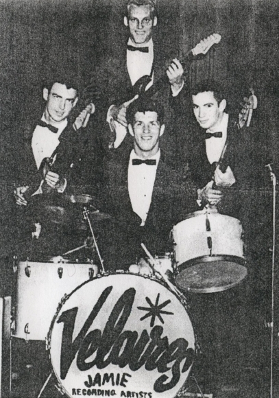 The Velaires: From left Bob Dawdy, Danny Matousek (back), Don Bourret, Jerry DeMers